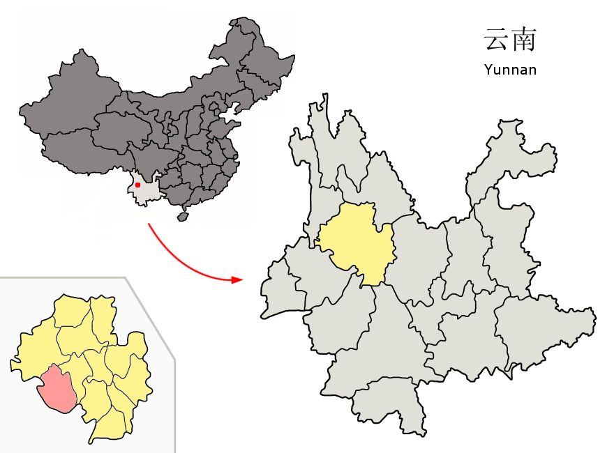 Location of Yongping County (pink) and Dali Prefecture (yellow) within Yunnan province of China Map drawn in september 2007 using various sources, mainly : Yunnan province administrative regions GIS data: 1:1M, County level, 1990 Yunnan Counties map from